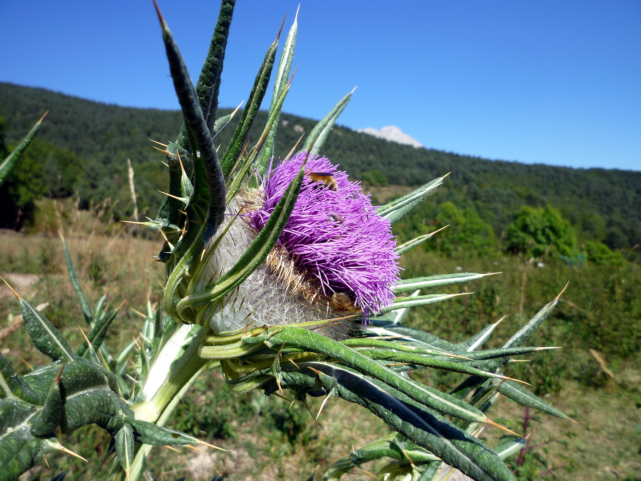 Cirsium eriophorum. In Gósol (Berguedà - Catalunya). To 1.370 m. altitude